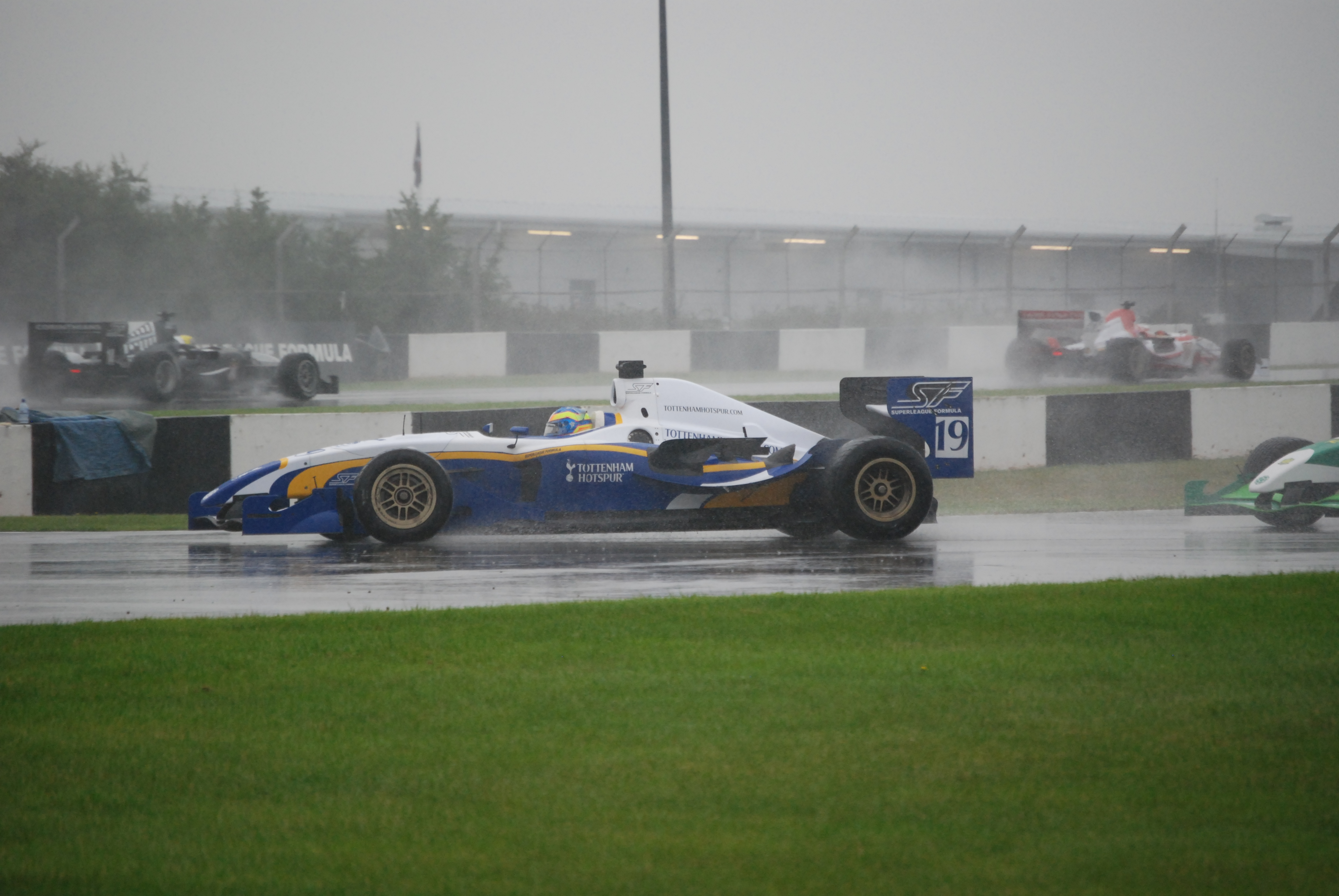 The Tottenham Hotspur Superleague Formula car rounds the Melbourne chicane at Donington Park.